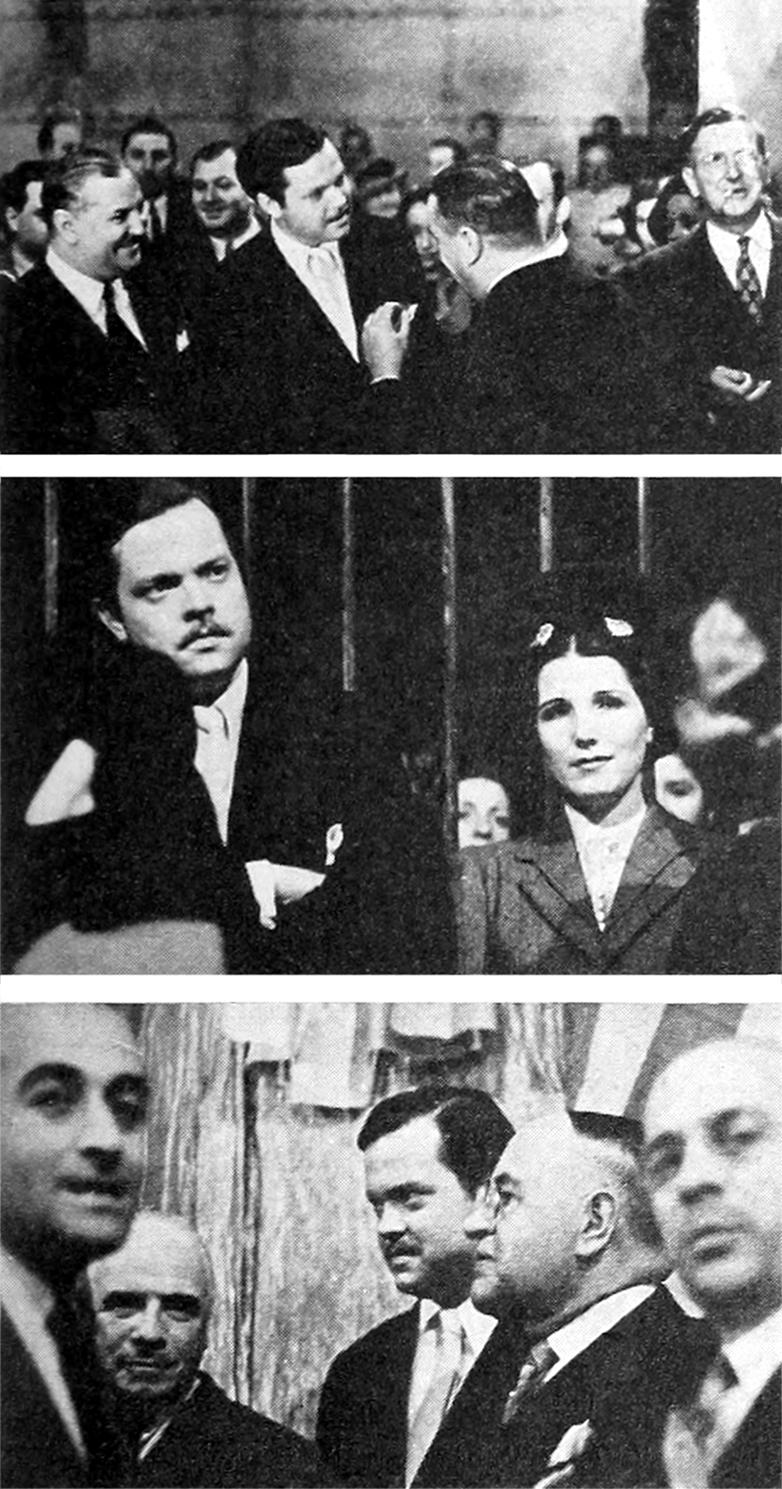 Photographs of Orson Welles touring the San Miguel Studios in Buenos Aires, meeting with noted film personalities of Argentina. In the center photograph he stands beside actress Libertad Lamarque. Welles was working as a goodwill ambassador in South America on behalf of the Office of the Coordinator of Inter-American Affairs.